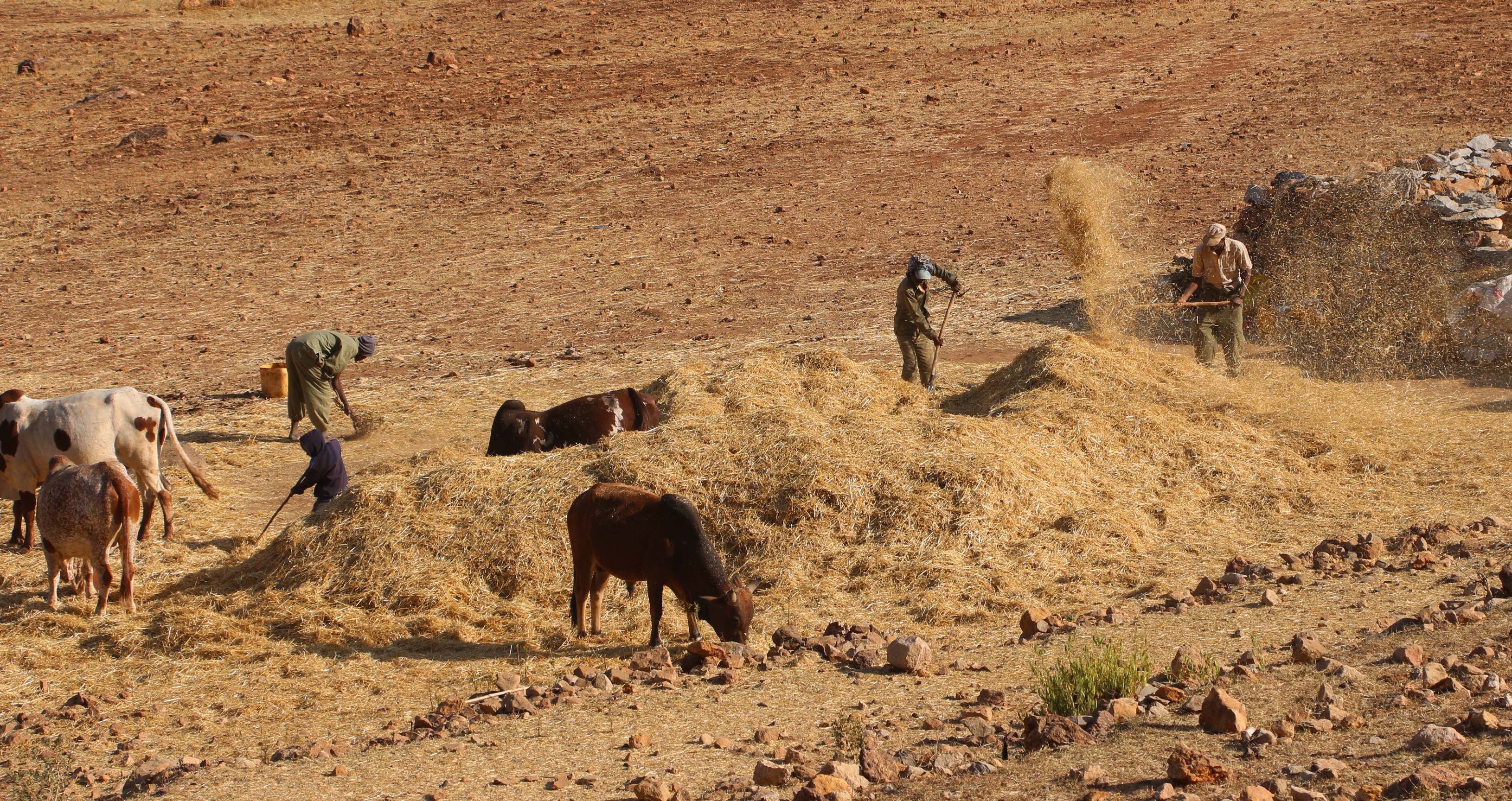 Senafe